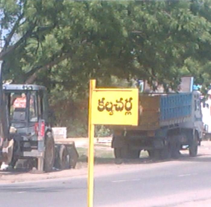 This is the picture of Kalvacherla village entrance